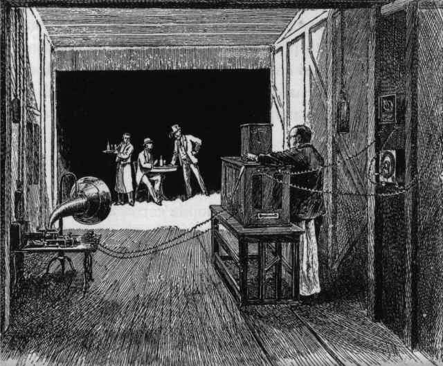 Interior of the Kinetographic Theater, Edison's Laboratory, Orange, N J, Showing Phonograph and Kinetograph Drawing of Edison's Black Maria film studio by E. J. Meeker